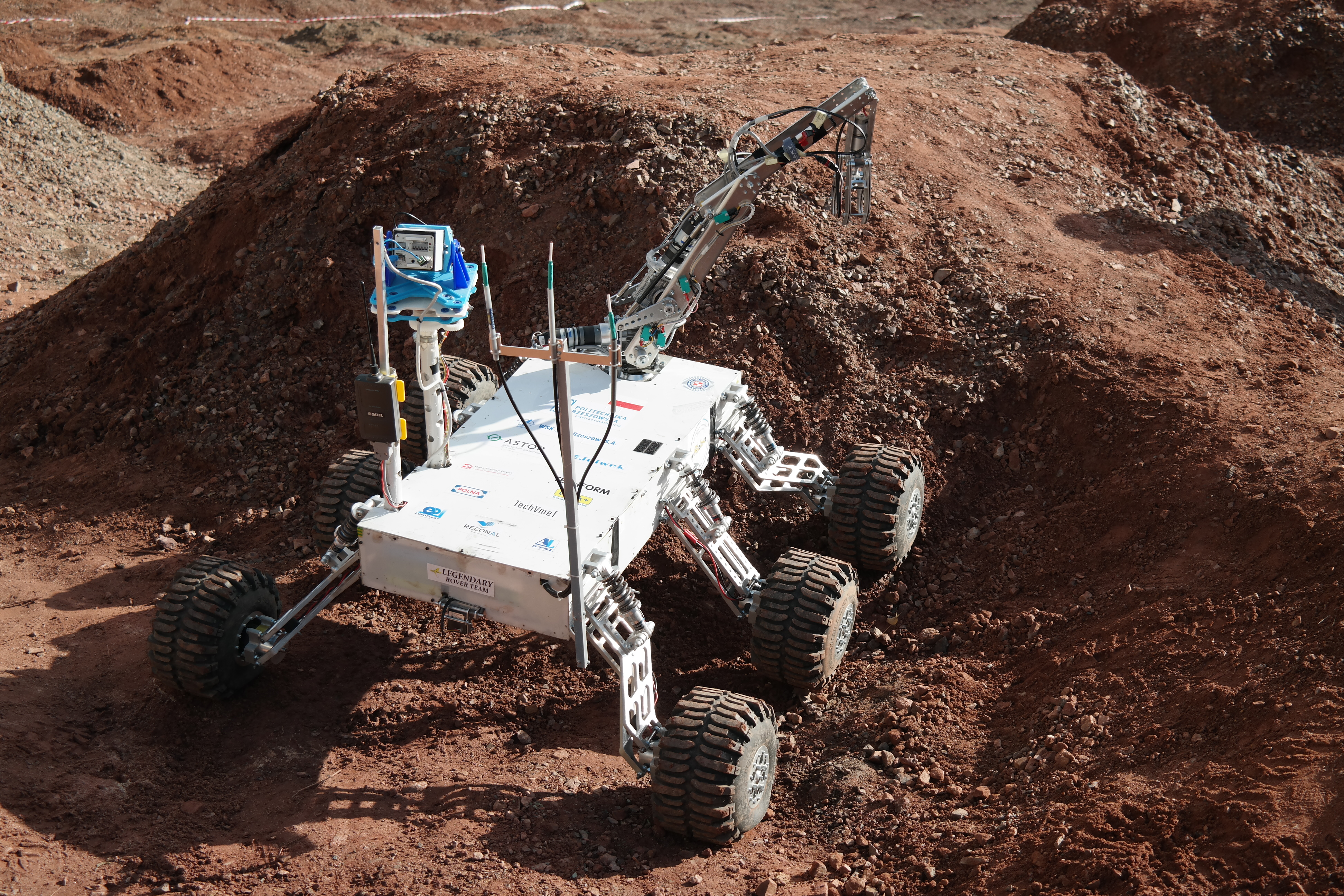 European Rover Challenge 2015, 5-6 September, Podzamcze near Chęciny near Kielce, Poland. Showcases on the track on the 6th of September. Legendary Rover, winner of the University Rover Challenge 2015 (category), presented to the public.